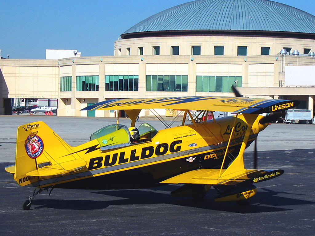 Jim LeRoy in his airplane "Bulldog", taxiing back after a performance at Airshow Chattanooga in October 2005.